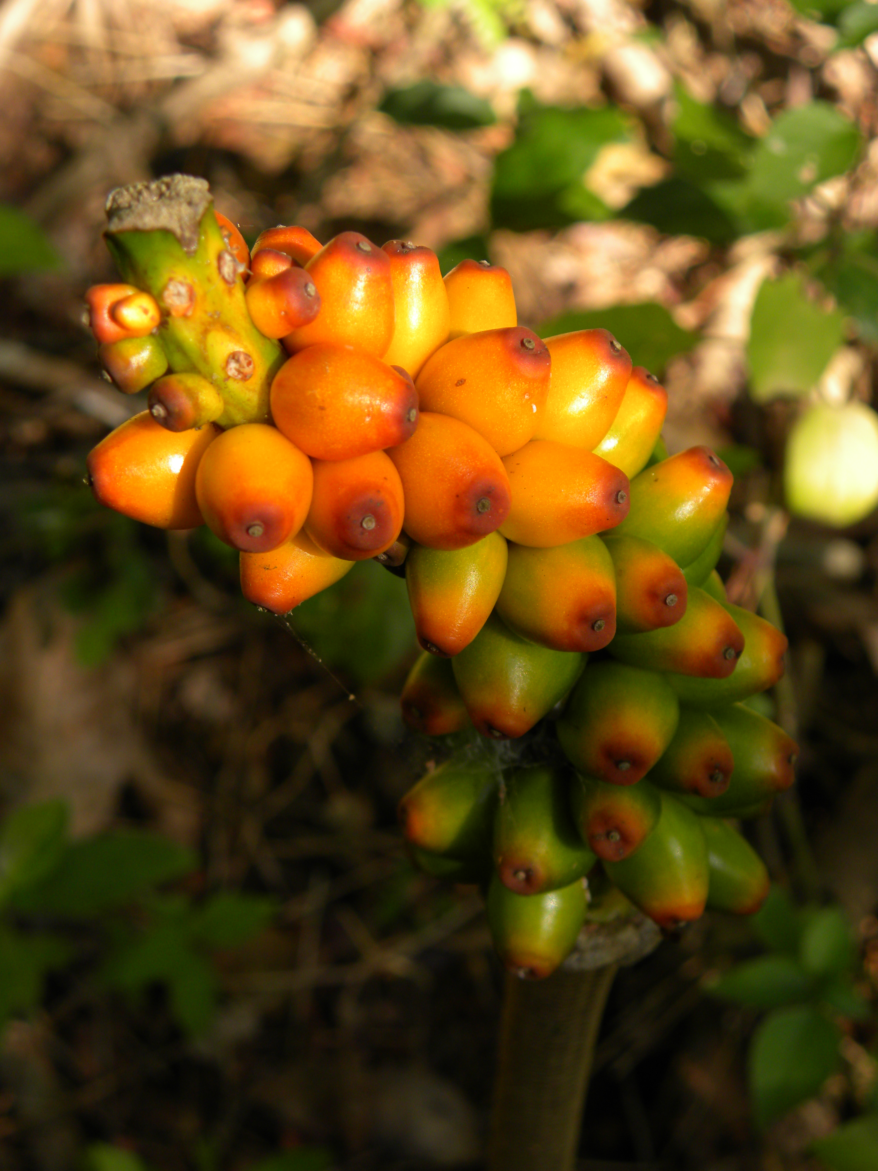 The infructescence of Amorphophallus paeoniifolius